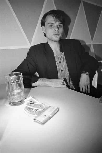 Photograph of the Finnish musician Mara Salminen (1964–) as a member of the Kauko Röyhkä Combo band. Photographed in Lahti.